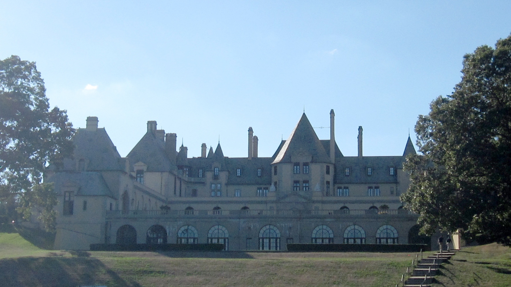 Oheka Castle from the eastern side.